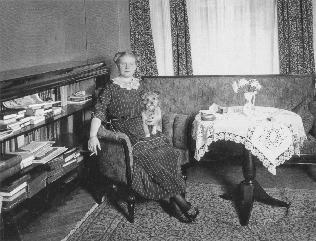 German actress Lucie Höflich.